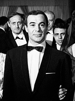 Algerian politician Saadi Yacef posing beside some guests at 27th Venice International Film Festival.